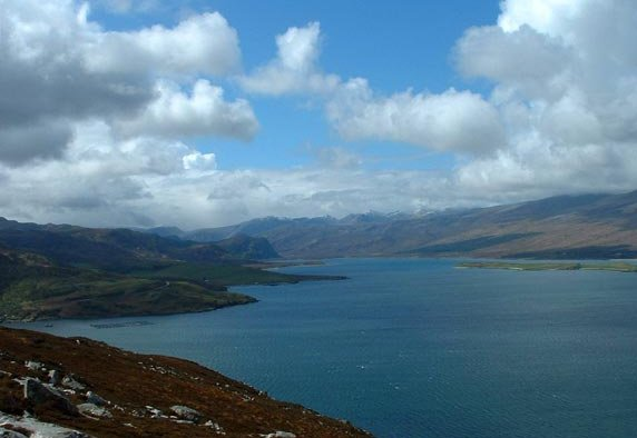 View down Loch Eriboll.